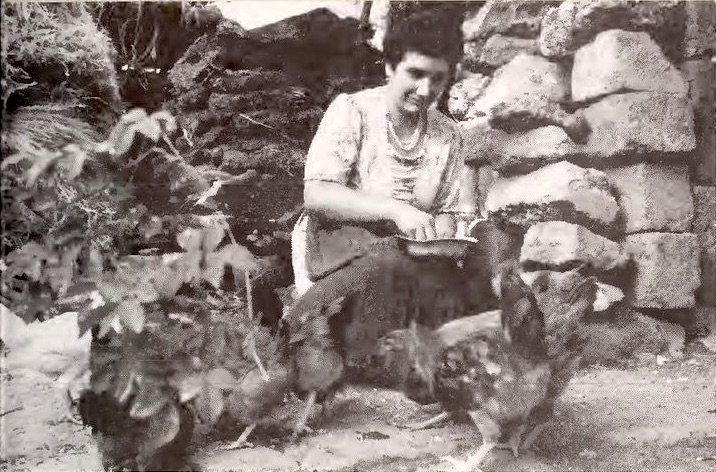 Woman feeding chickens in a rural village of Armenia. A photo from the book "Armenia, Azerbaijan, and Georgia - country studies" (1995), page 47.